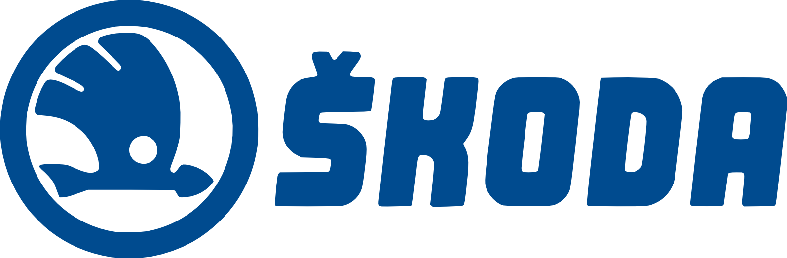 Logo of Škoda Works. On December 15, 1923, two versions of registered trademarks were filed at the Office for Innovation and Model Registration in Plzen. The first depicted a winged arrow with five stylised feathers with the name ŠKODA in a circle and the second was a winged arrow with three feathers. The arrows in both designs pointed to the right.